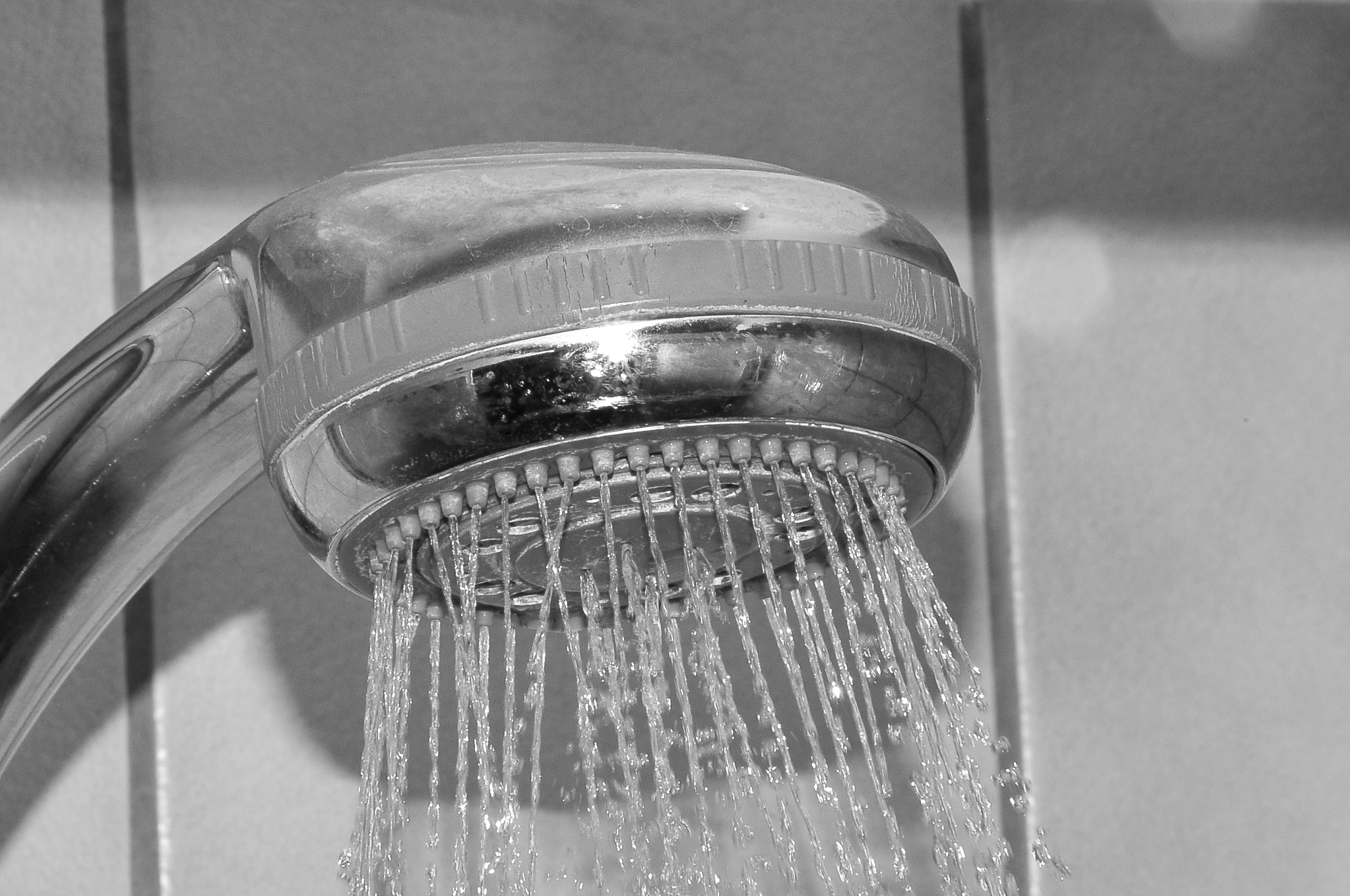 shower head